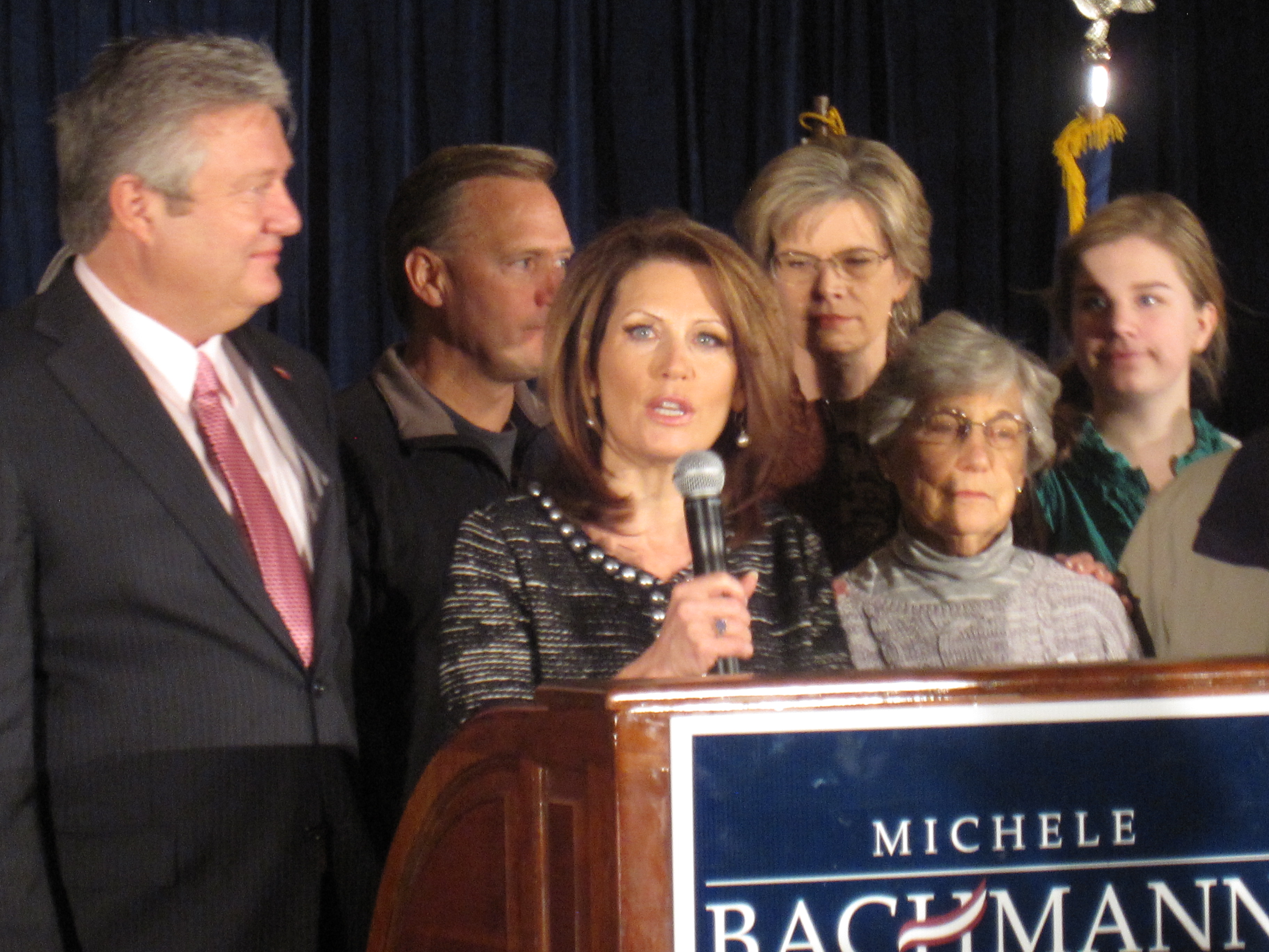 Michele Bachmann drops out of US presidential race after poor showing in Iowa Caucus.